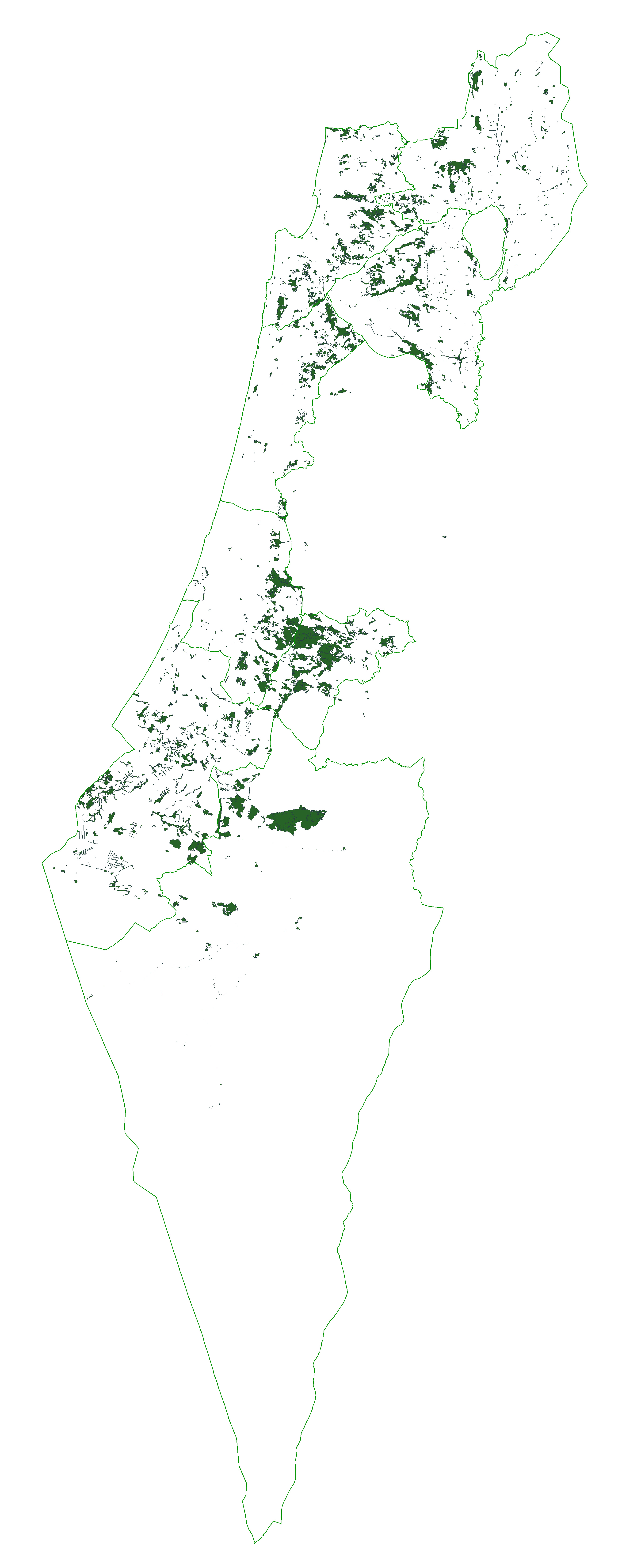 man made forests in israel